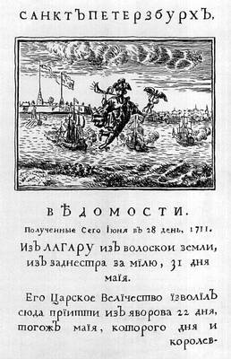 This is a page from the newspaper Petrine Vedomosti of 1711. The copyright probably belonged to the newspaper and has expired long time ago. Can be uploaded e.g. from The Petrine Vedomosti dated June 28, en:1711.